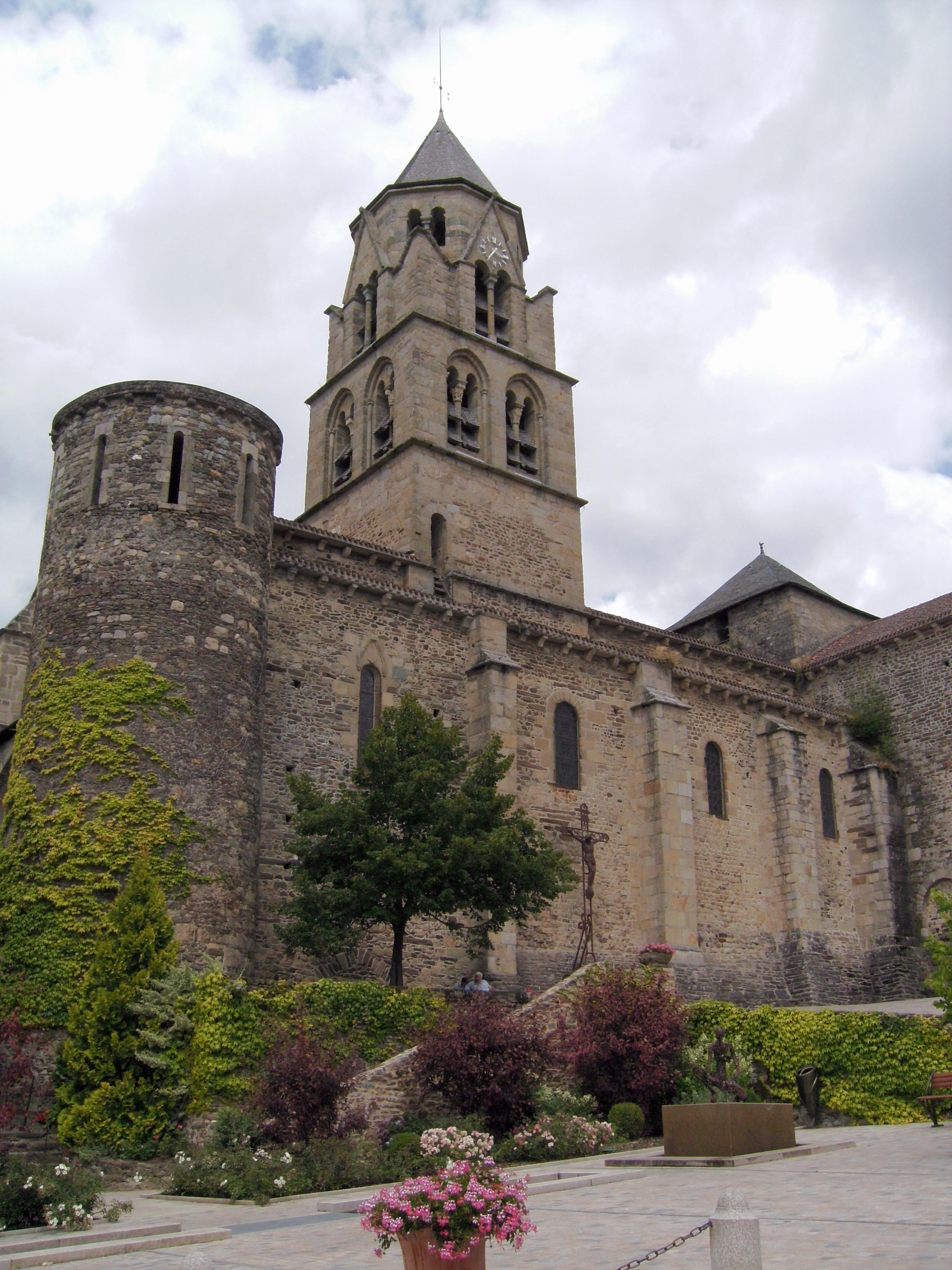 Abbey church of St Peter and St Andrew, Uzerche, Limousin, France.